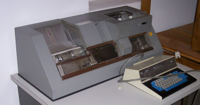 IBM 029 keypunch